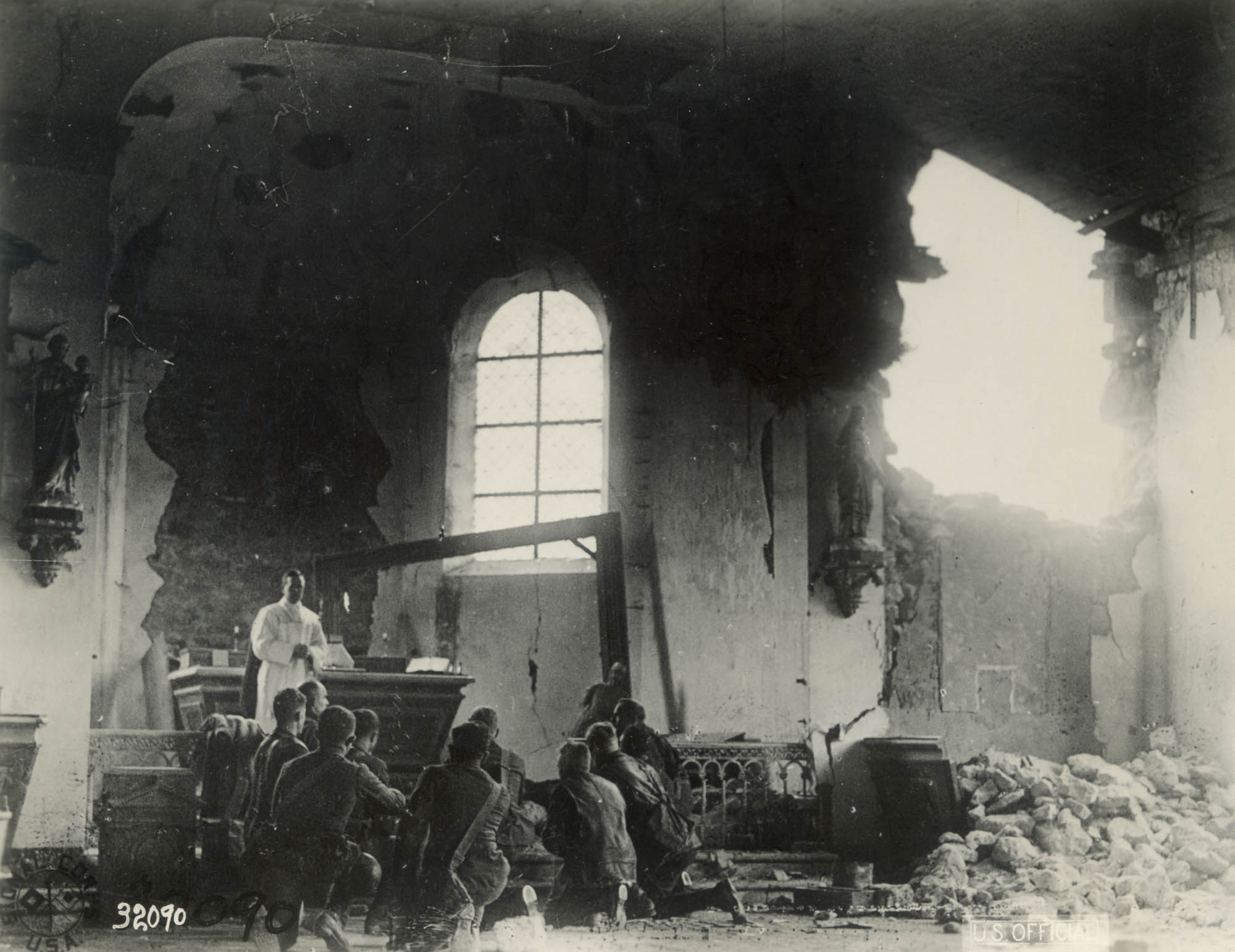 DOMMARTIN, FRANCE. SOLDIERS ATTENDING MASS IN BOMBED OUT CHAPEL. SANITARY TRAIN #108. Selected by Lauren.